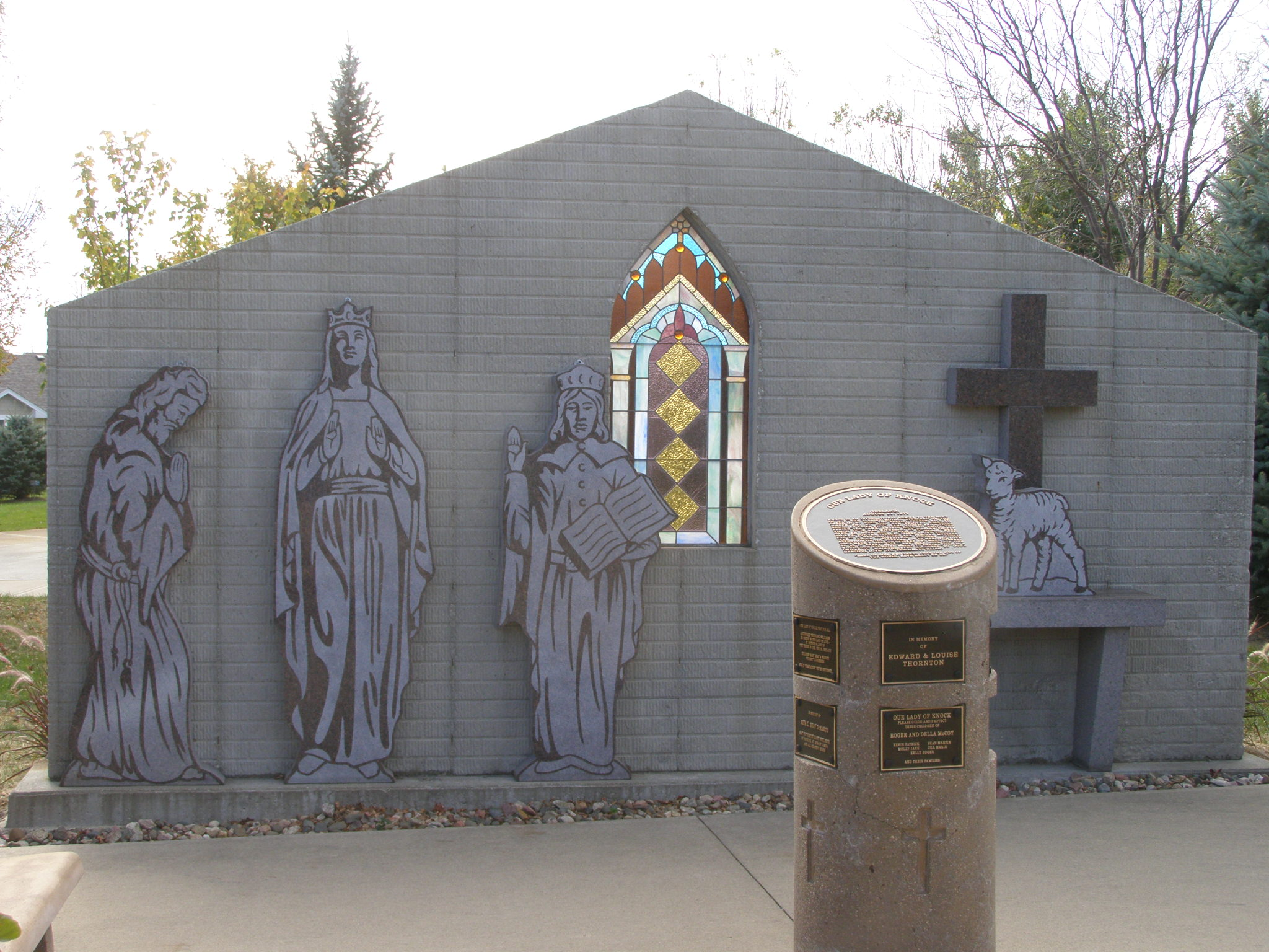 Our Lady of Knock at Trinity Heights, Sioux City, Iowa.